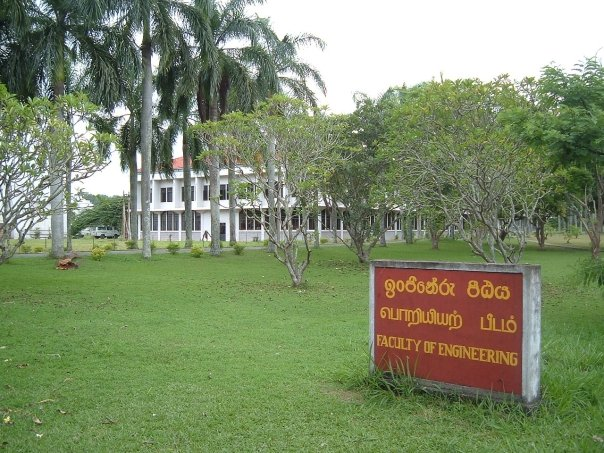 My own work. Taken by me in 2004.